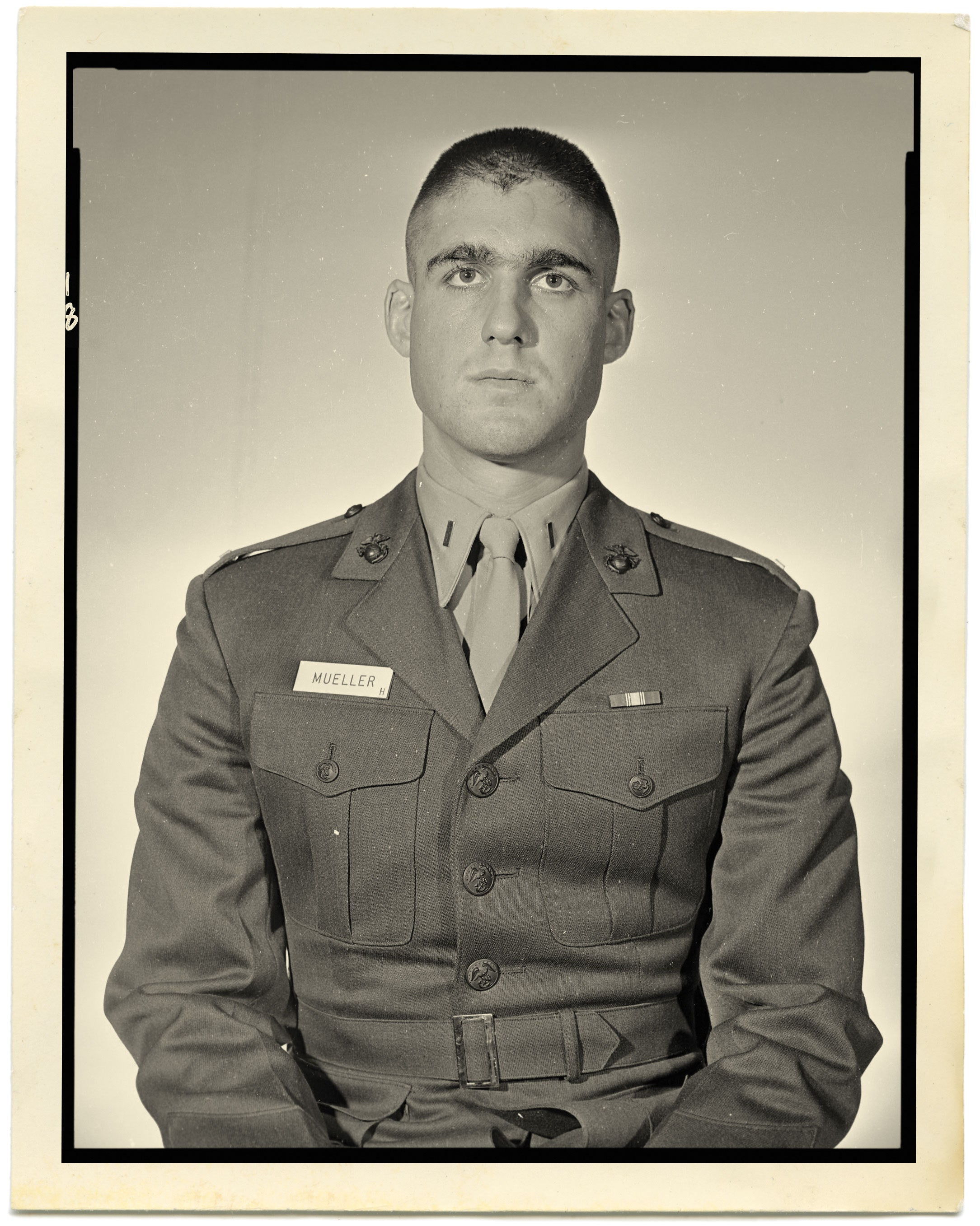 LT Robert Mueller, USMC